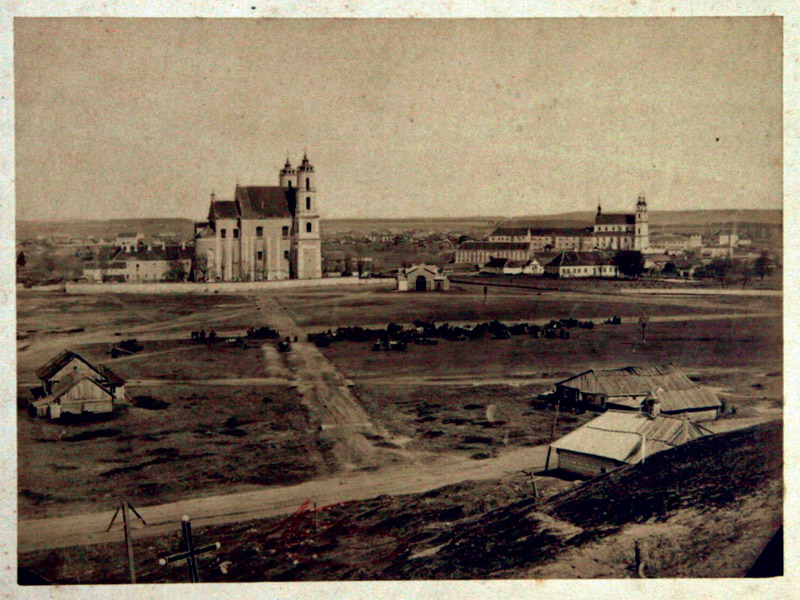 One of the oldest Vilnius photo. Aprox. on 1860 taken by Abdon Korzon (1826-1865). On the other side: "Nowy rynek – kośćiół S-go Jeżego i S-go Rafala" (in polish) – "New market - The churches of St. George and St.Raphael".